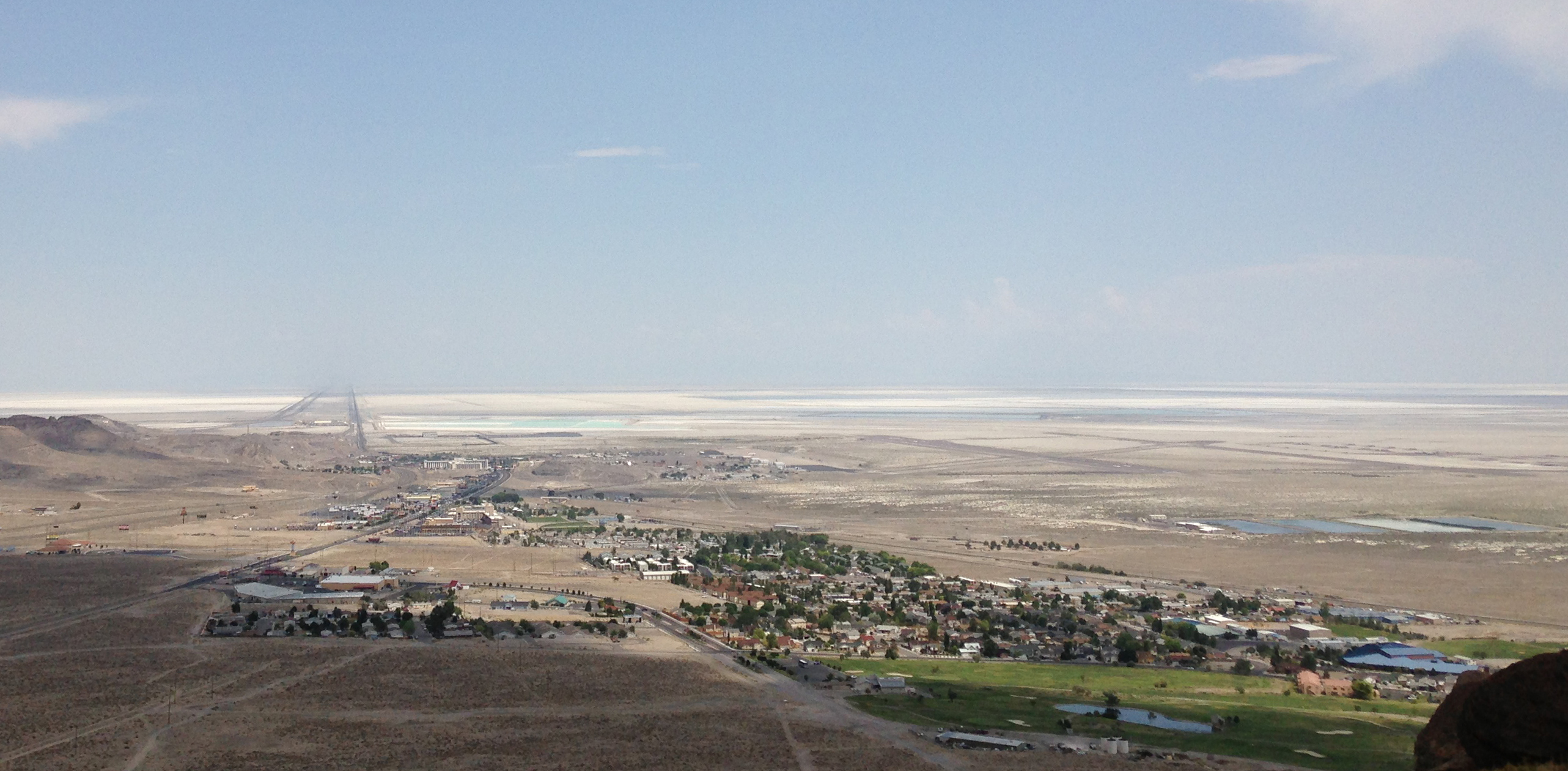 View of West Wendover, Nevada from a hill to the west